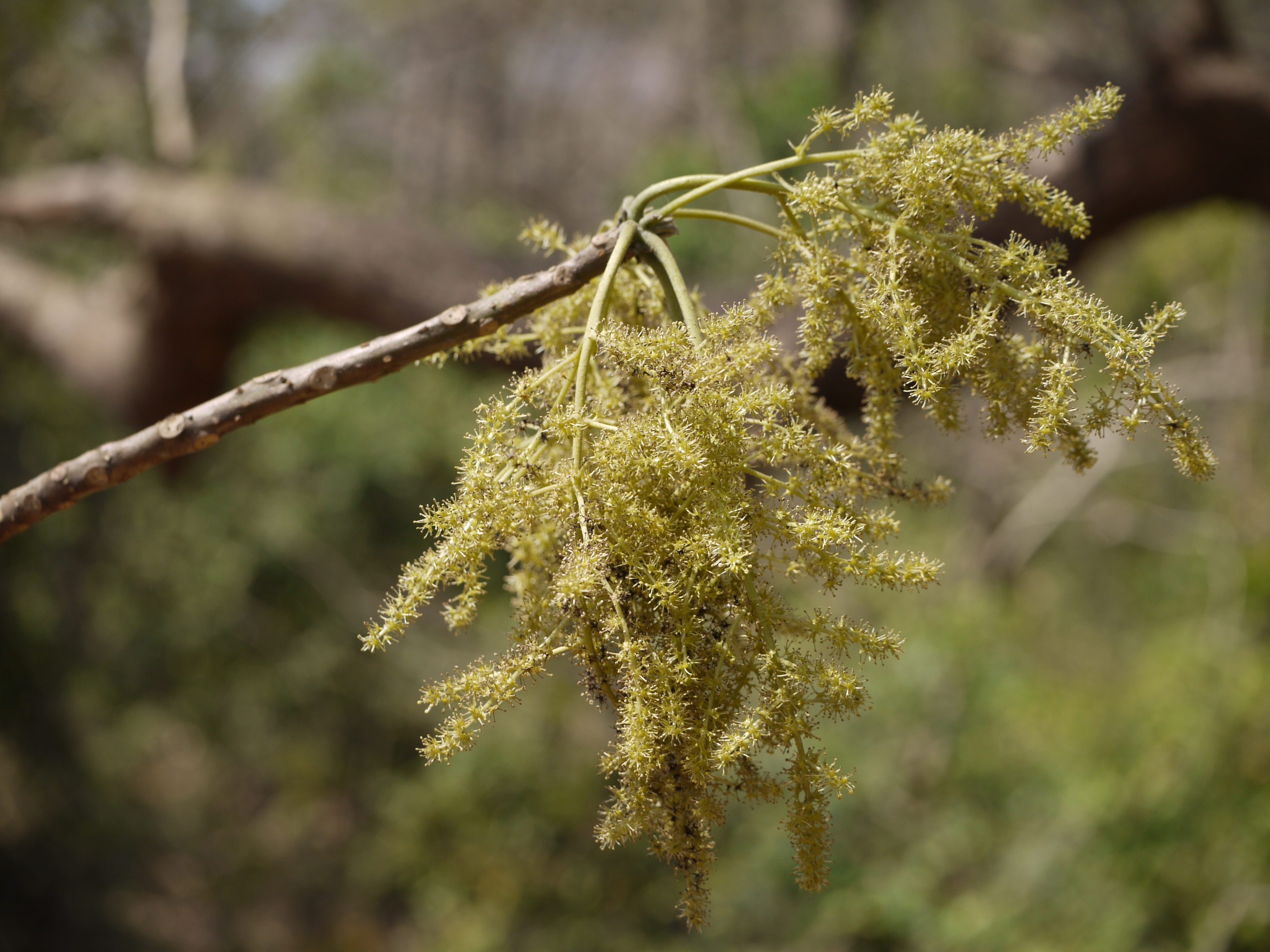 Tetramelaceae (false hemp family) » Tetrameles nudiflora ♂ tet-ra-MEL-eez -- from the Greek tetra (four) and melos (limb); referring to 4-merous flower noo-dee-FLOR-uh -- naked flower, usually referring to flowering prior to leaf emergence commonly known as: false hemp tree • Assamese: bhelu • Bengali: chundul • Garo: awek, bol bok, dumbong • Hindi: jungli dungy • Kannada: ಕಾಡು ಬೆಂಡೆ kaadu bende • Malayalam: ചീനി cheeni, വെള്ളച്ചീനി vellacheeni • Marathi: जंगली भेंडी jangali bhendi • Nepali: मैन्-काठ् main-kath • Tamil: சீனி chini, சோலை colai Native of: s-w China, Indian subcontinent, Indo-China, Malesia, n-e Australia References: Biotik • eFlora • globinmed • NPGS / GRIN • Wikipedia • ENVIS - FRLHT • DDSA